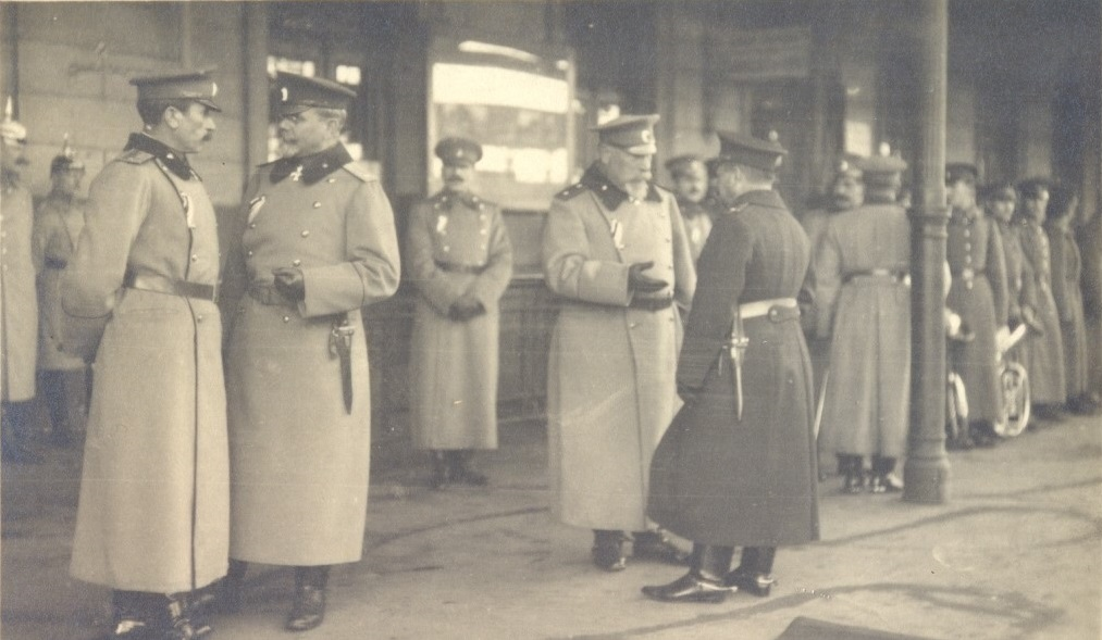 General Nikola Zhekov and General Georgi Todorov, 1916.